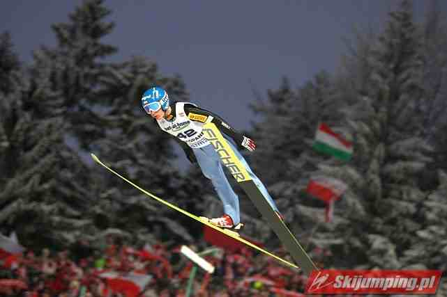 Kamil Stoch during saturday competition of FIS Ski Jumping World Cup in Zakopane, 2010